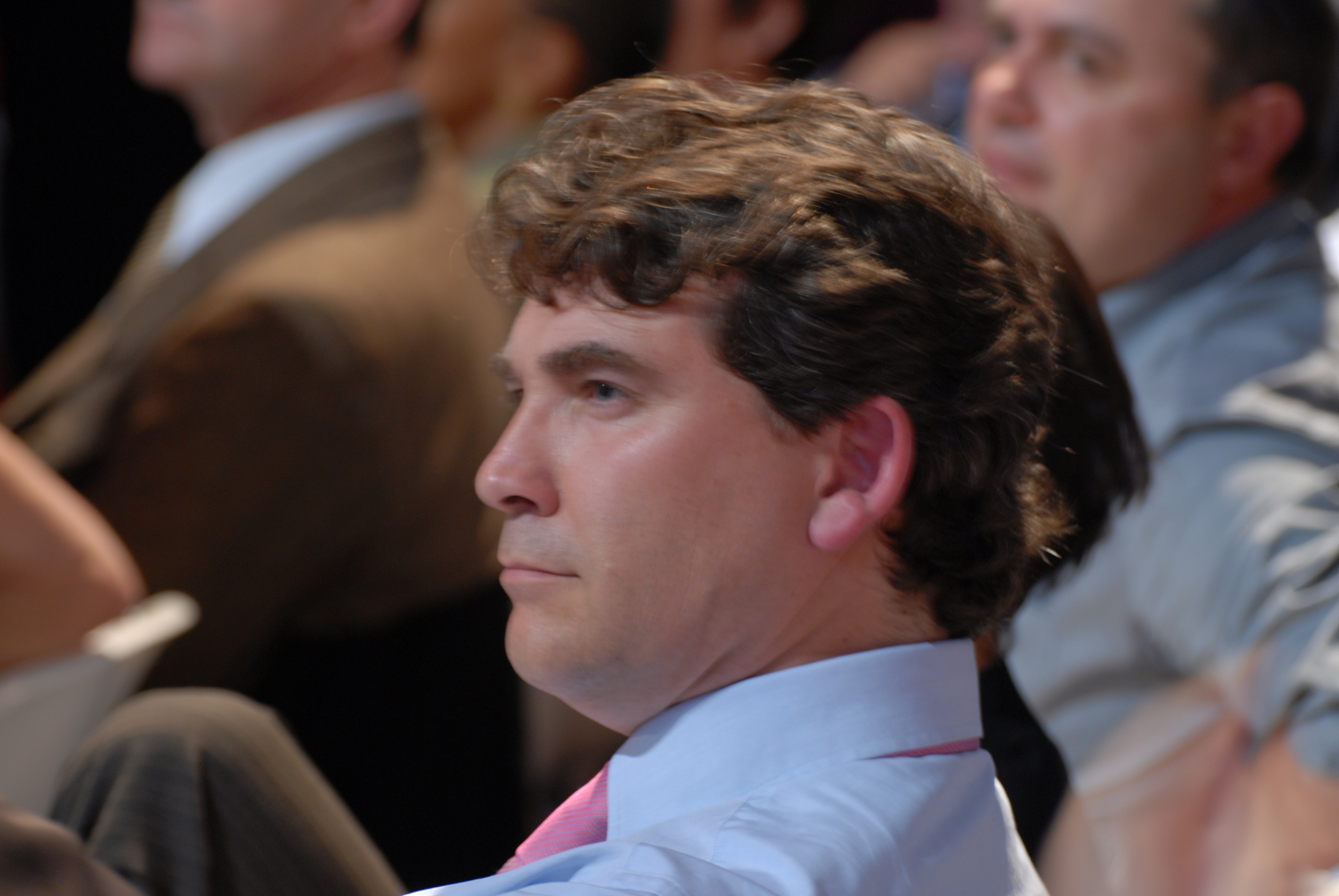 Arnaud Montebourg during Ségolène Royal and José Luis Rodríguez Zapatero's meeting in Toulouse on April, 19th 2007 for the 2007 presidential election.